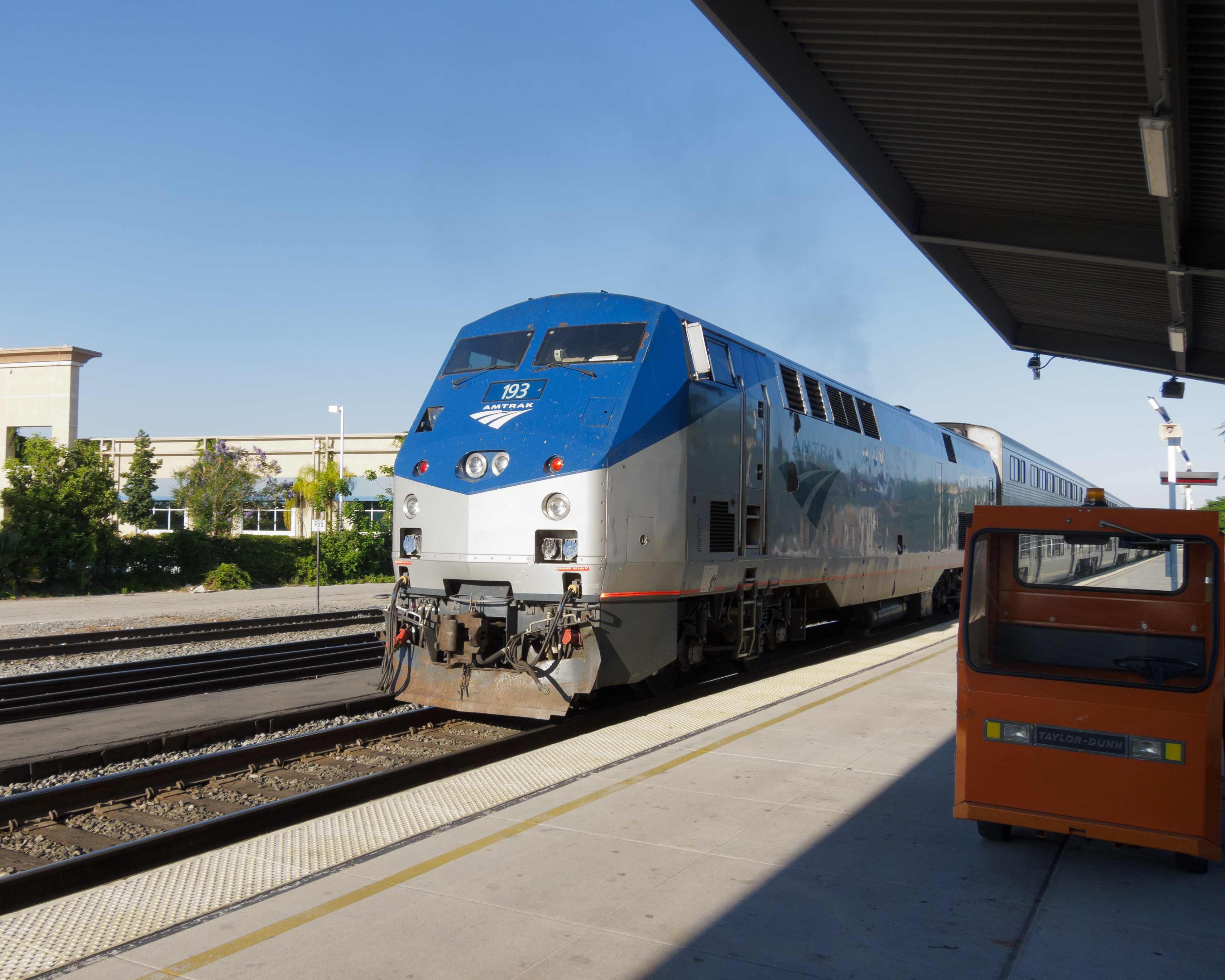 Amtrak Pacific Surfliner train 193 leaves Van Nuys station, California.